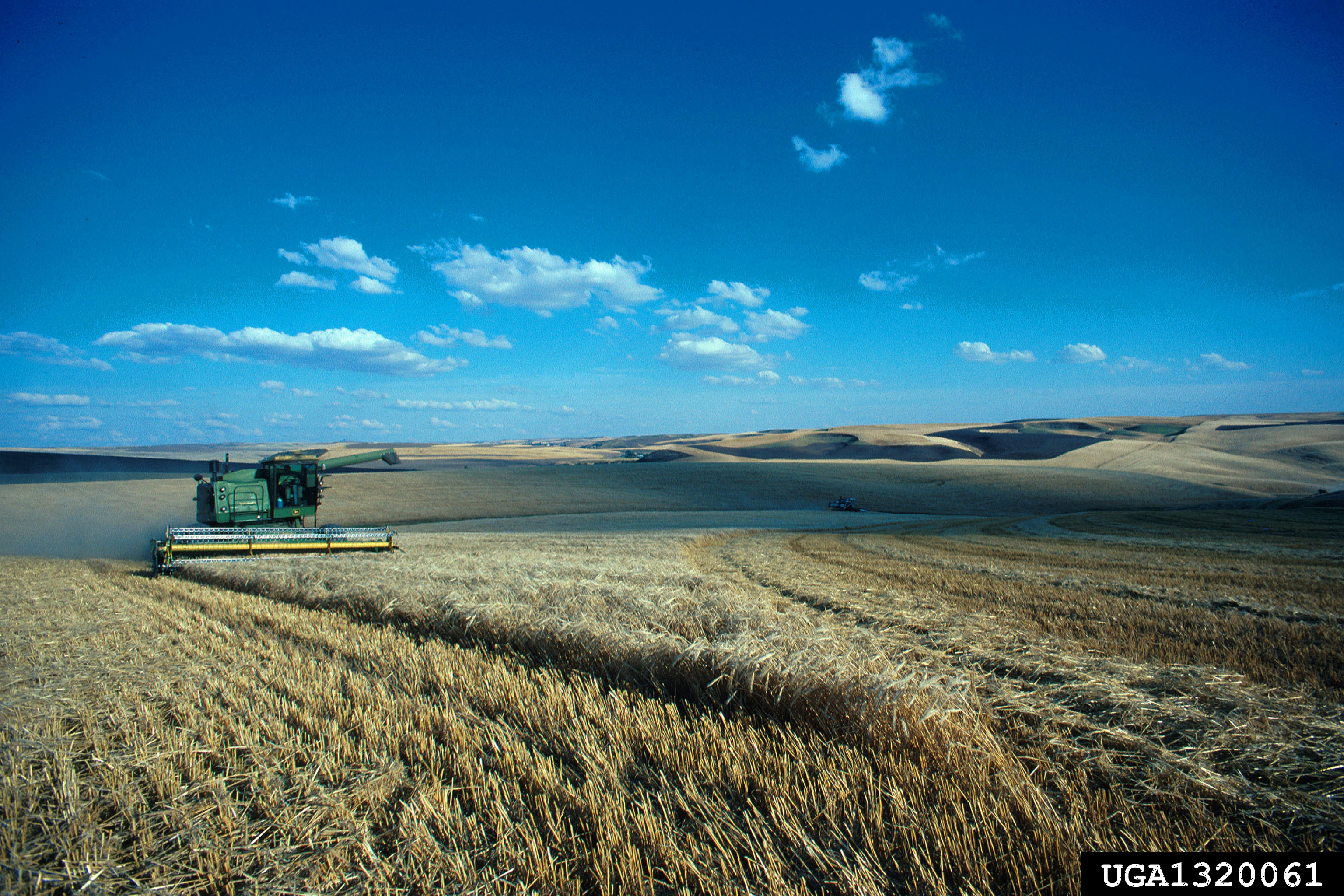 This is a photo of barley harvesting in Washington's Palouse Hills.